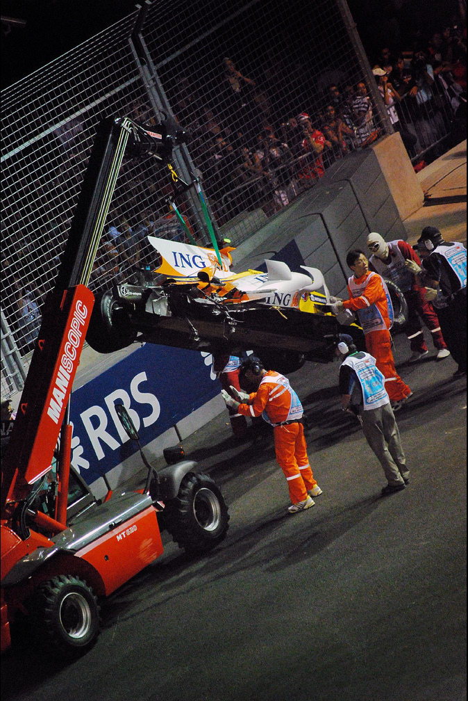 Nelson Angelo Piquet's crashed car at 2008 Singapore Grand Prix